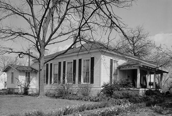 Front of the L. Q. C. Lamar House, located at 616 North Fourteenth Street in Oxford, Mississippi, United States.